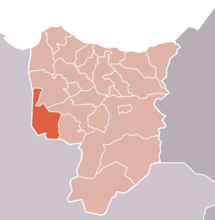 Tsaft